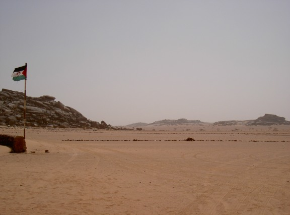 West Sahara, Polisario territory near to Tifariti